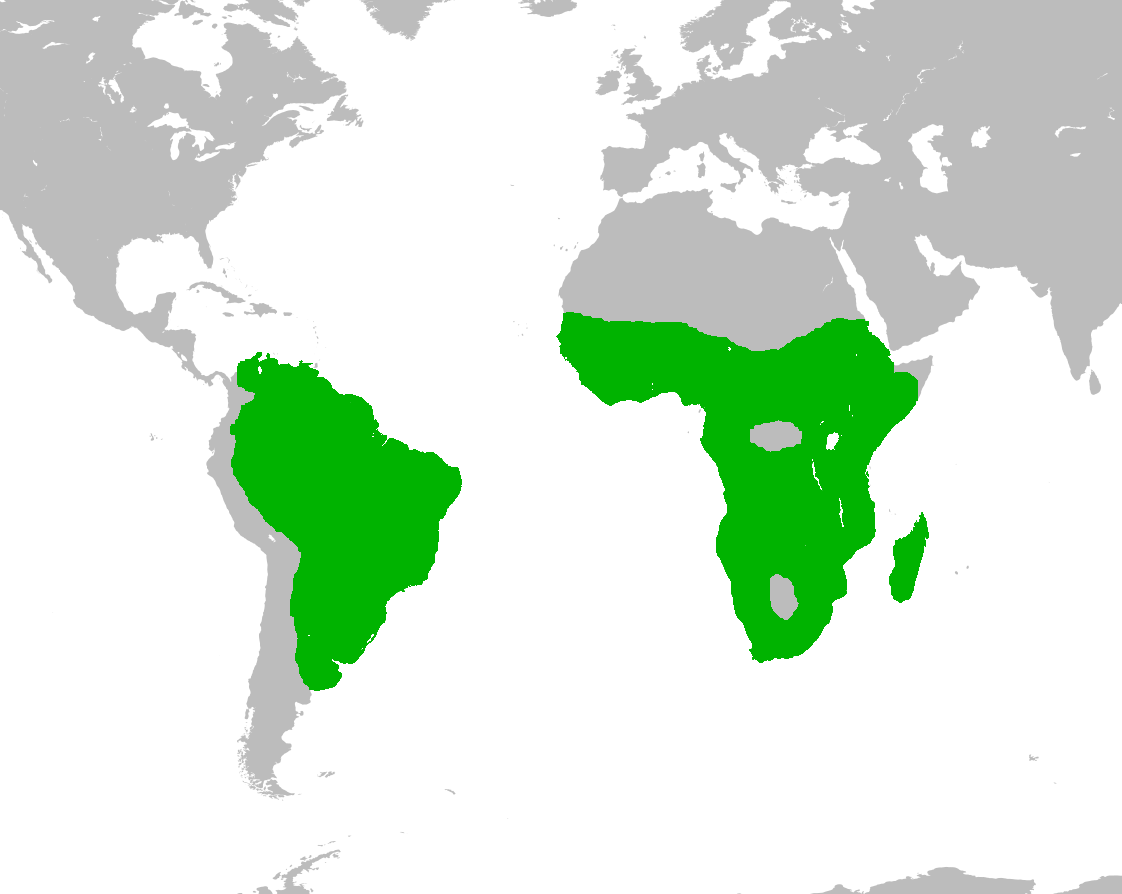 Range map of Dendrocygna viduata. Source map is cropped from File:World_map_blank_without_borders.svg. Source info is from iucn redlist